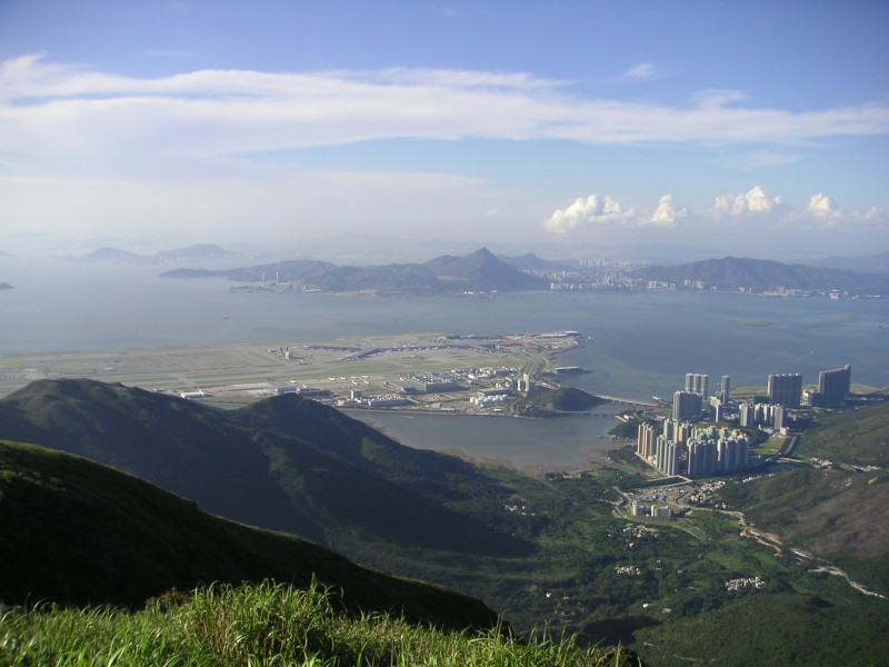 View from Lantau Peak.